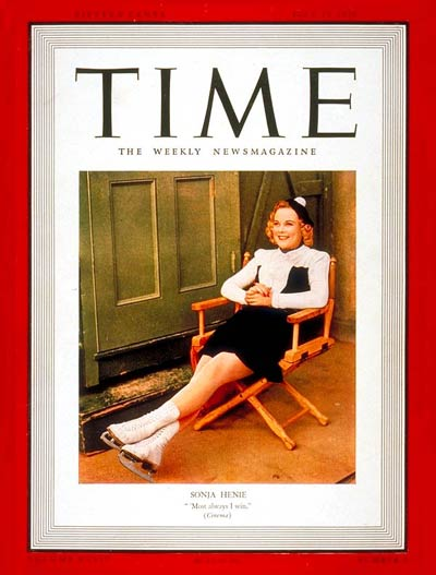 Time magazine, Volume 27 Issue 29, July 17, 1939 The cover shows Sonja Henie.